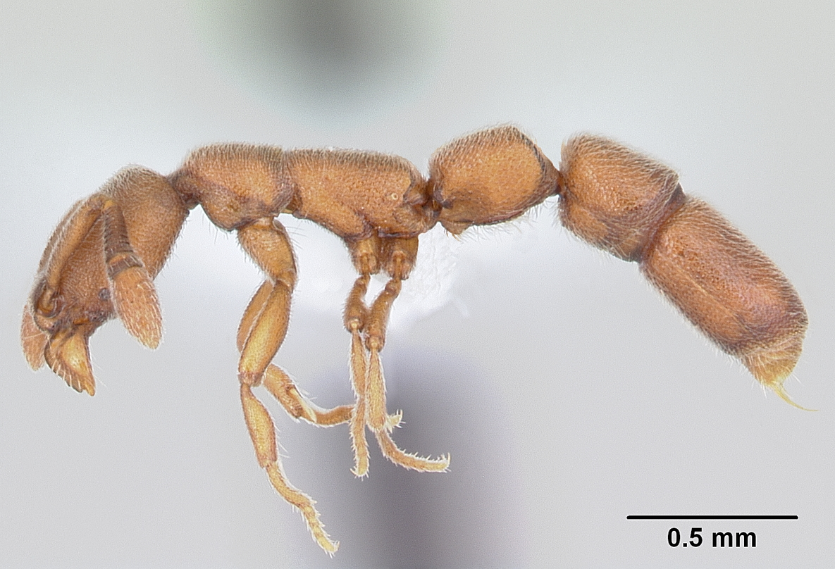 Profile view of ant Dolioponera fustigera specimen casent0412032.